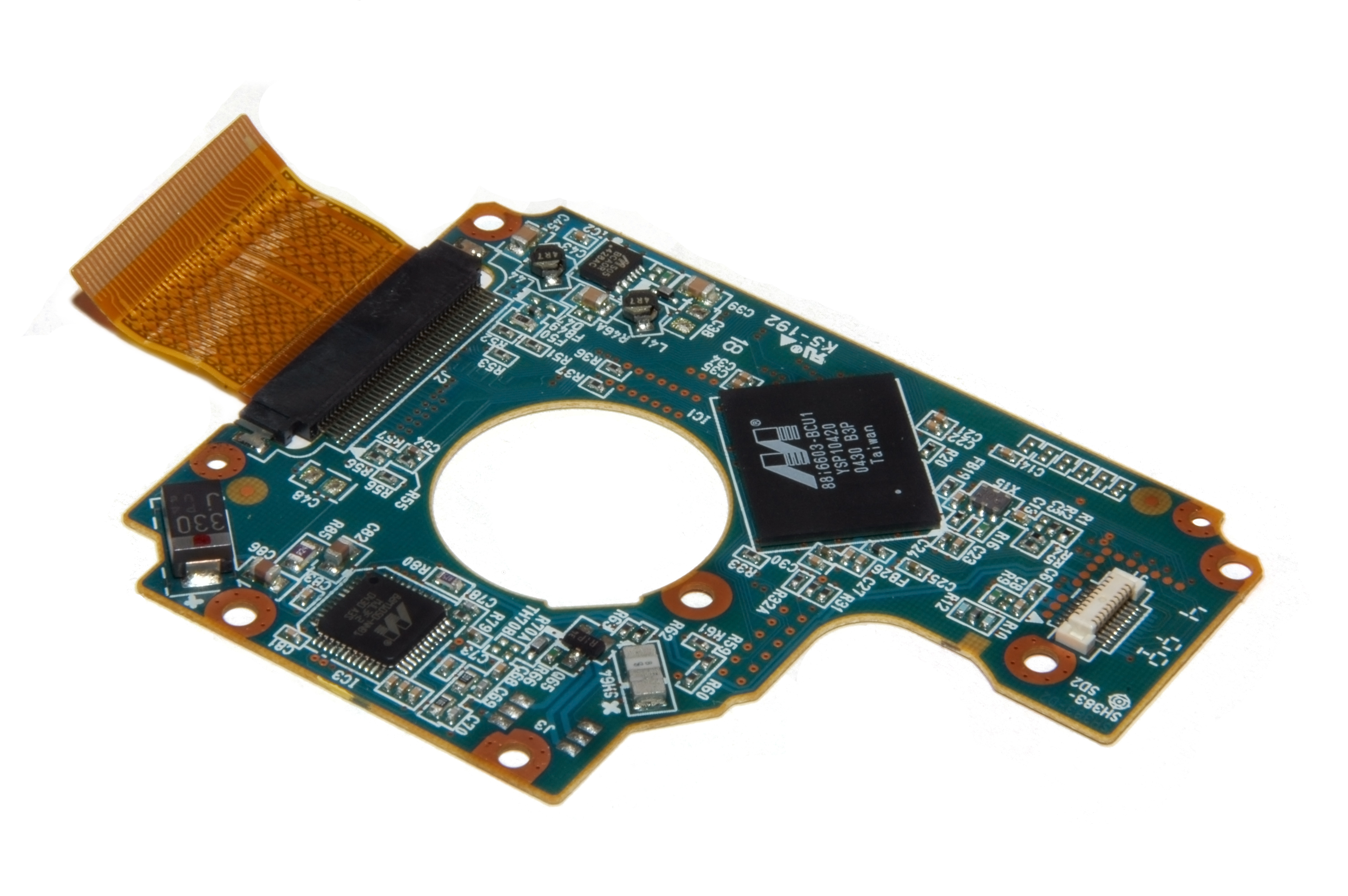 The PCB from a Hitachi TravelStar portable hard drive. Note that the ICs are all made by Marvell